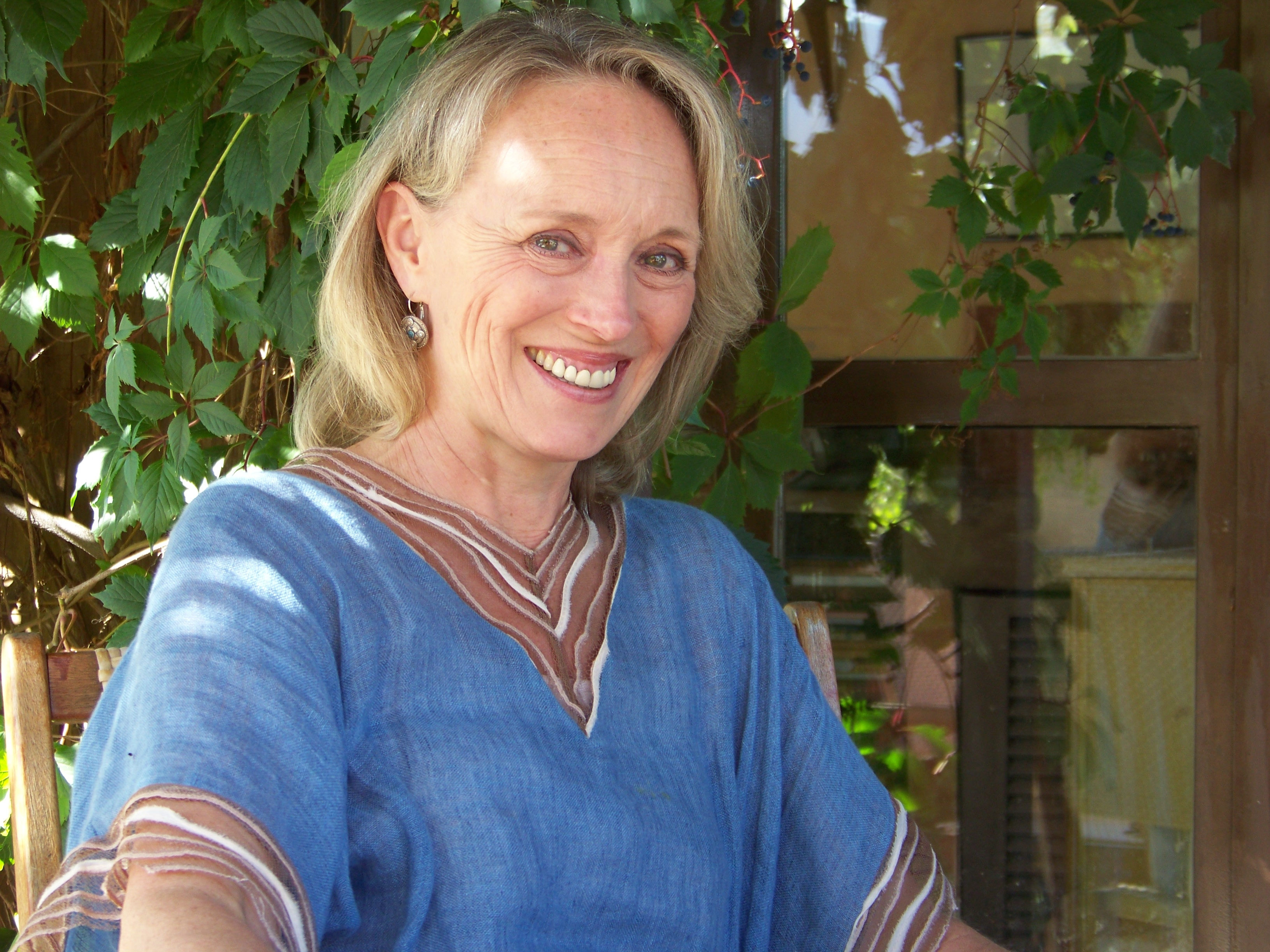 Actress Catriona MacColl in 2010